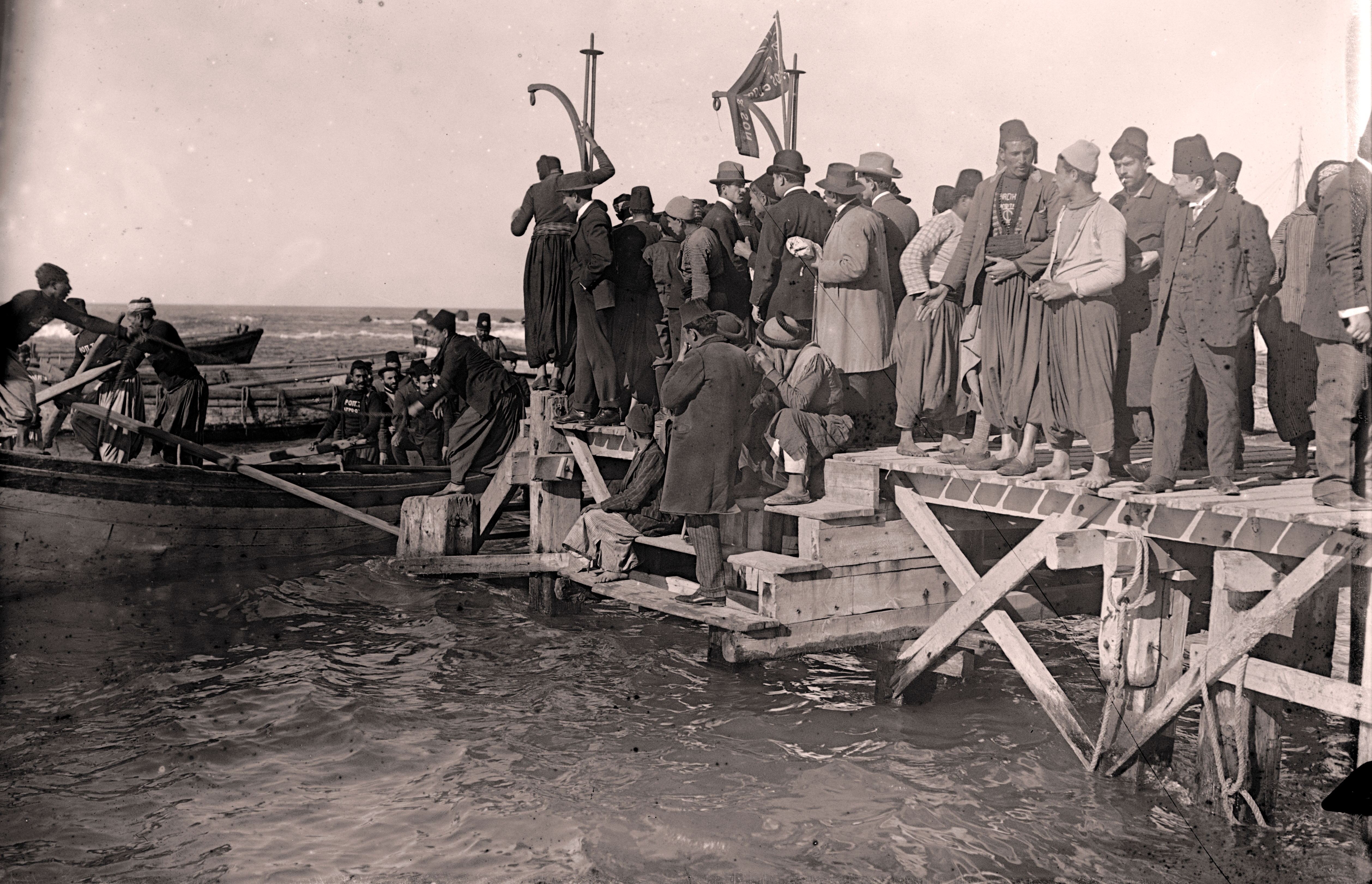 Jaffa Port